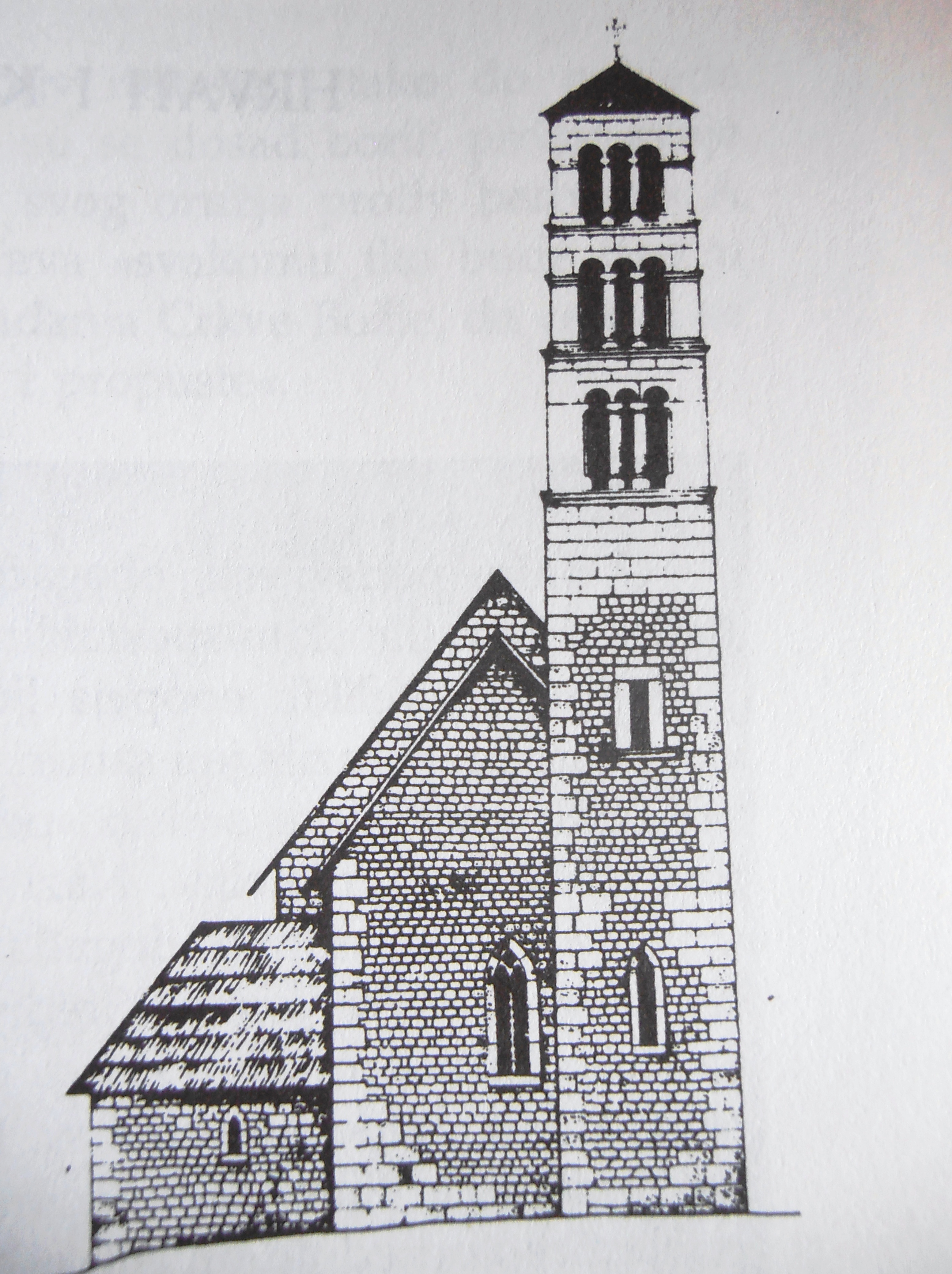 Reconstruction drawing of the Roman Catholic church of Saint Mary and the bell tower of the Saint Luke in Jajce, Bosnia and Herzegovina (XV century)